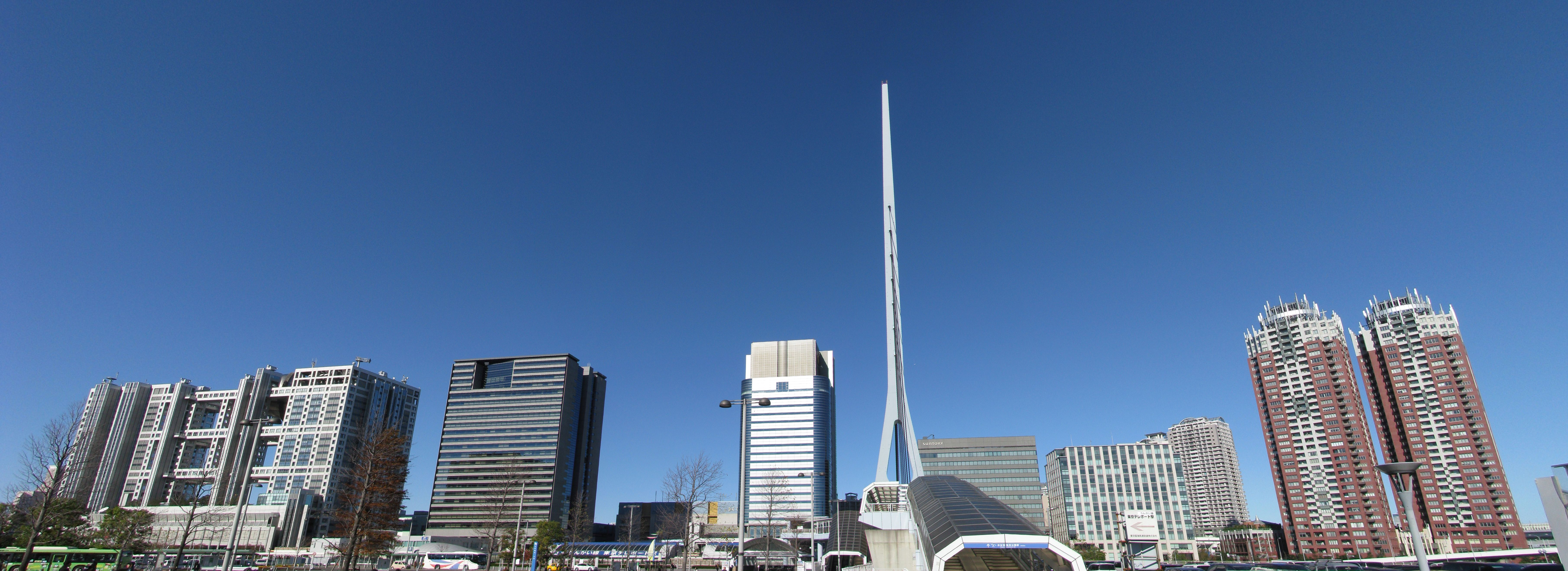 The Daiba in Minato, Tokyo, Japan.